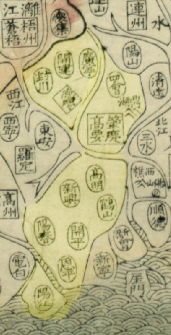 Highlight of 肇慶府, area cover the proximity of the city of Suehing in South China. Based on Ch'ing Map 京版天文全圖 (1790 by 馬俊良).